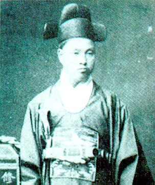 Kim Hong-jip, Korean prime minister during the Gabo Reform period (1895-1896).